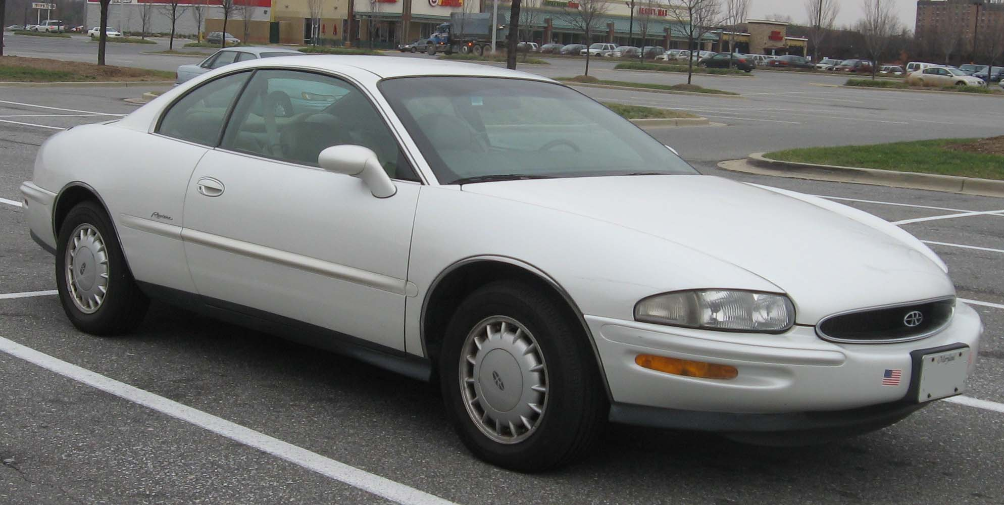 1995-1999 Buick Riviera photographed in Clinton, Maryland, USA.